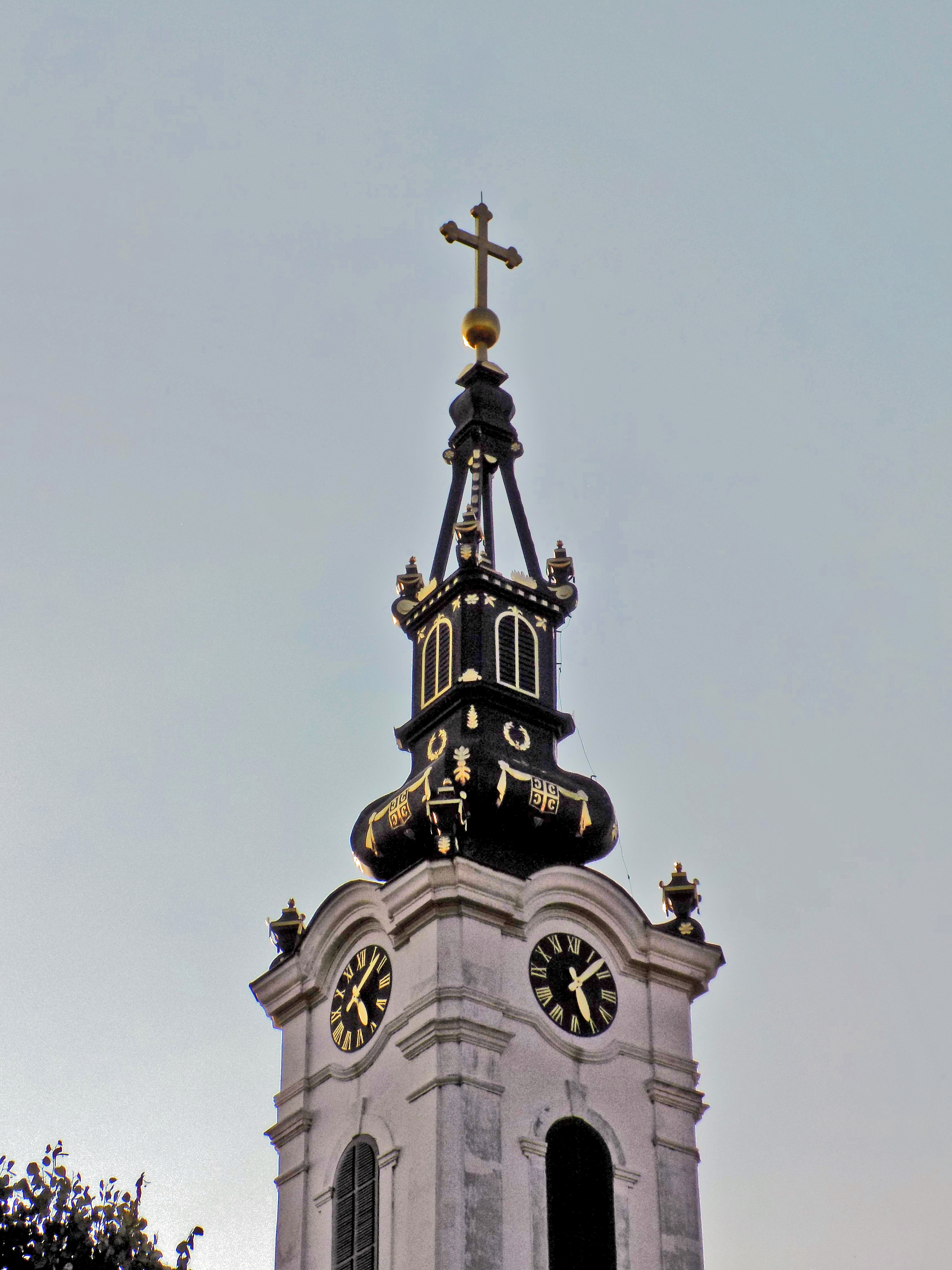 Tower of the St. Nicholas Church in Zemun (Serbia)